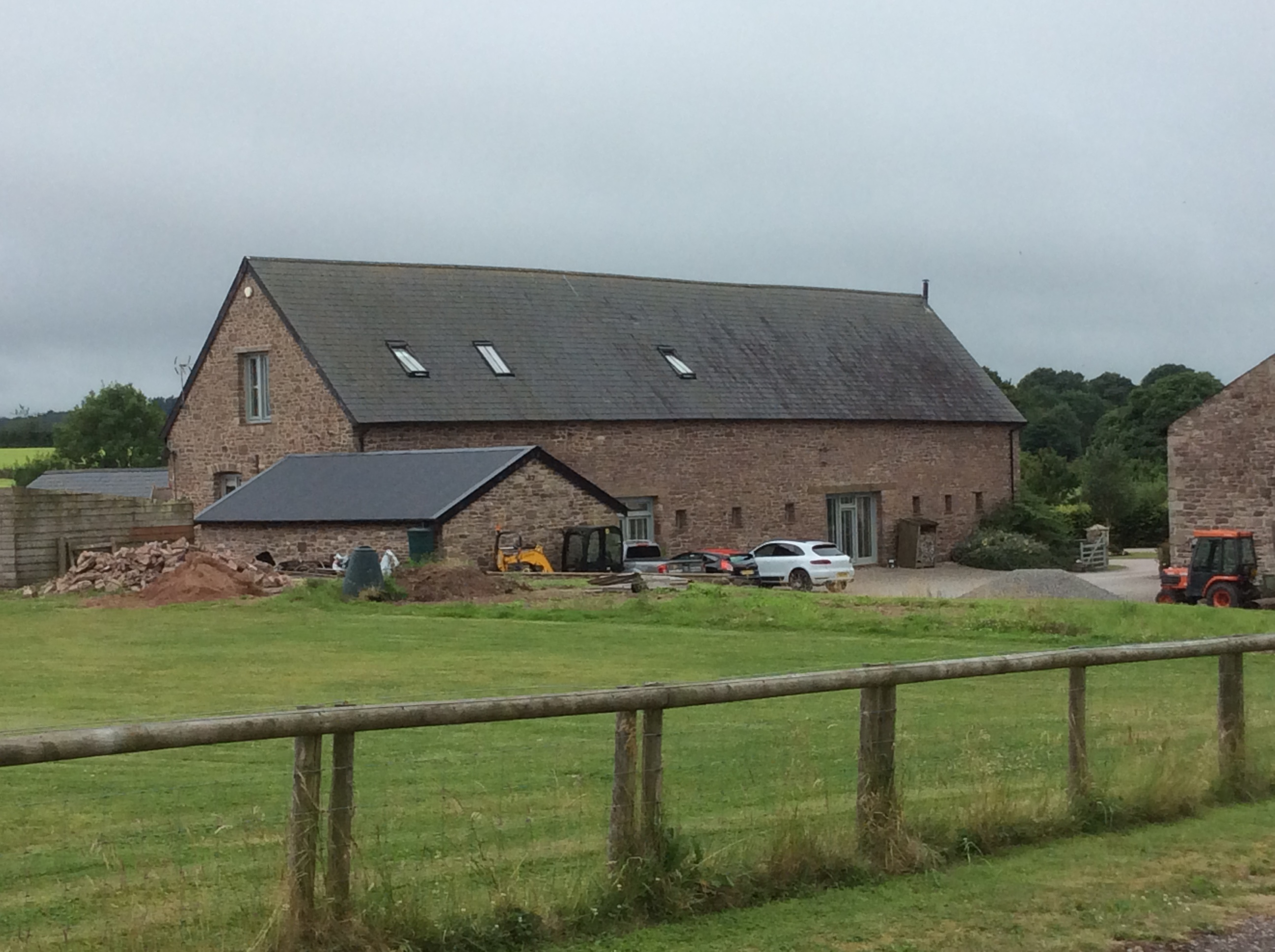 Barn at Pant-glas Farmhouse, Trellech, Monmouthshire